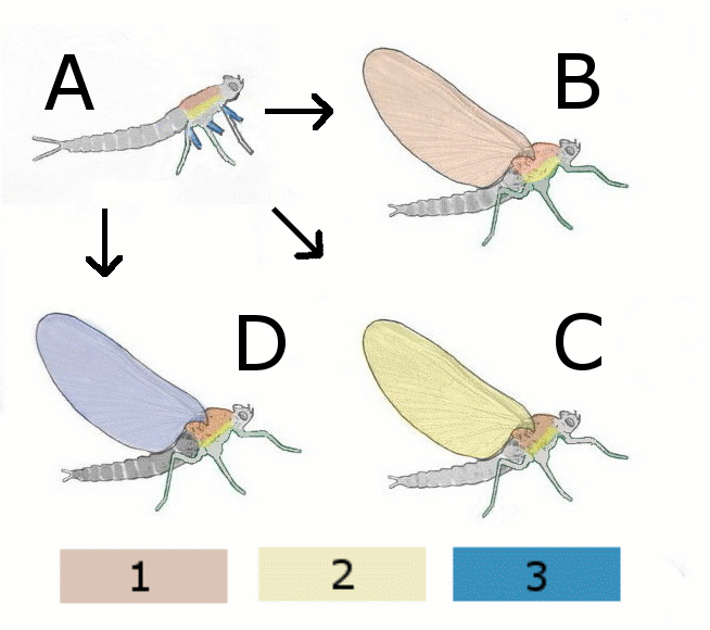 A Hypothetical wingless ancestor B Hypothetical insect with wings from notum (Paranotal-theory) C Hypothetical insect with wings from Pleurum D Hypothetical insect with wings from leg exit (Epicoxal-theory) 1 Notum 2 Pleurum 3 Exit of leg